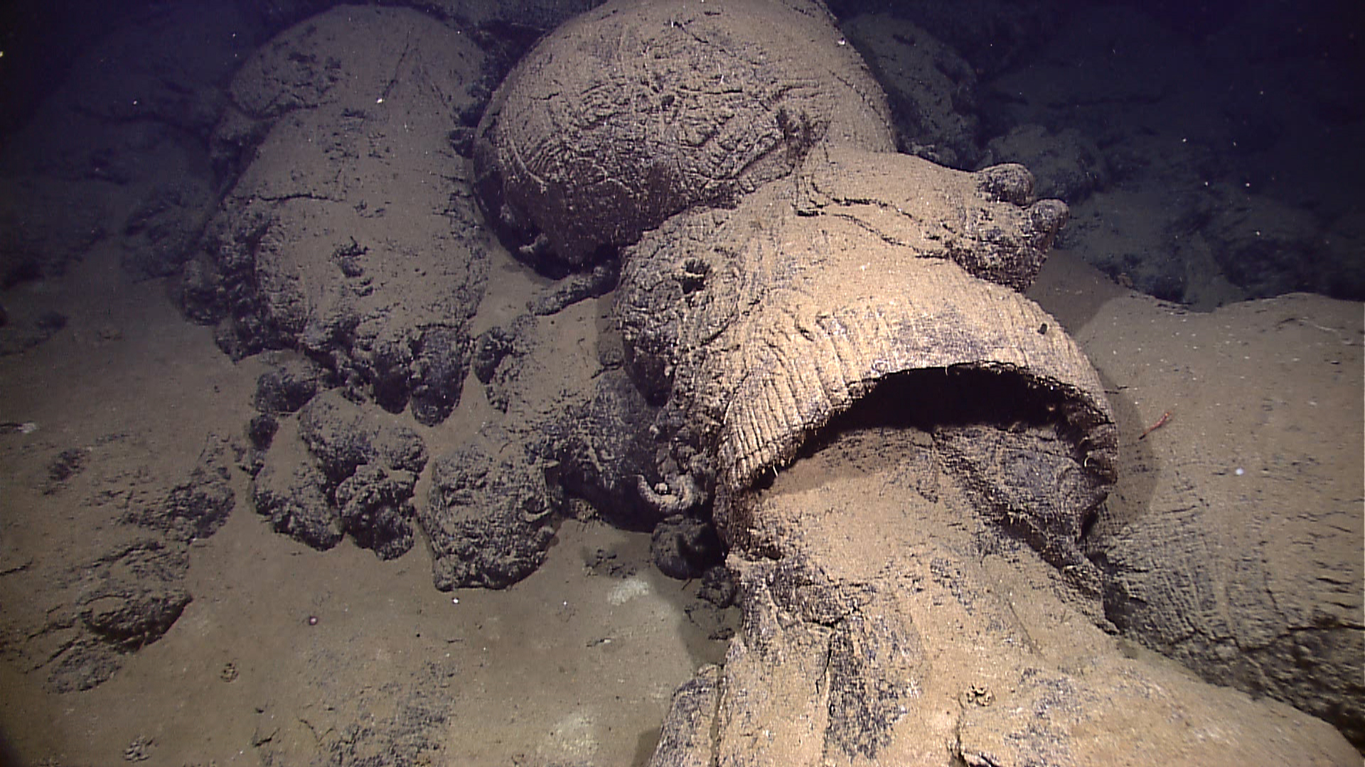 A collapsed pillow lava with the lava frozen in place after flowing out. NOAA Okeanos Explorer Program, Galapagos Rift Expedition 2011. 21 July 2011